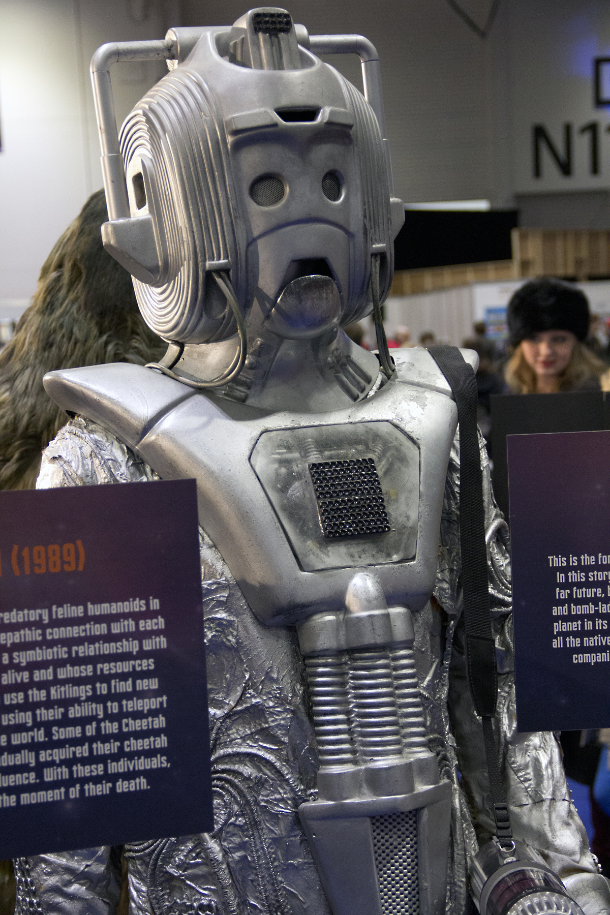 Doctor Who 50th Celebration Doctor Who Experience